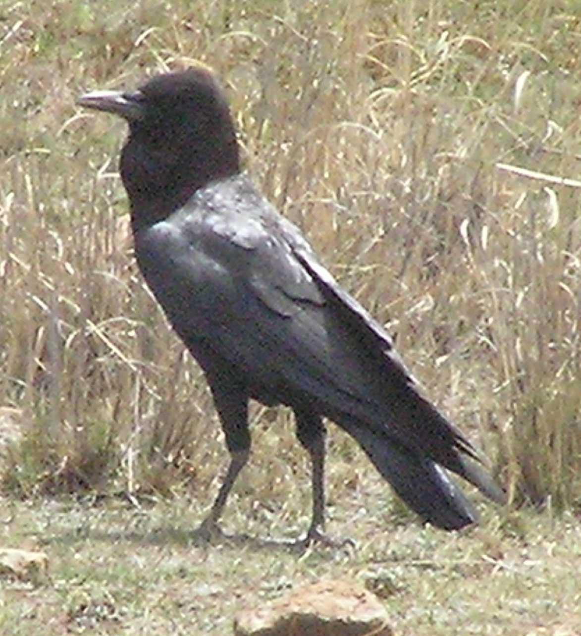 Cape Crow in Debre Berhan, Ethiopia